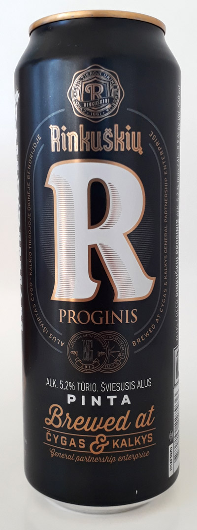 Proginis (Čygas & Kalkys)